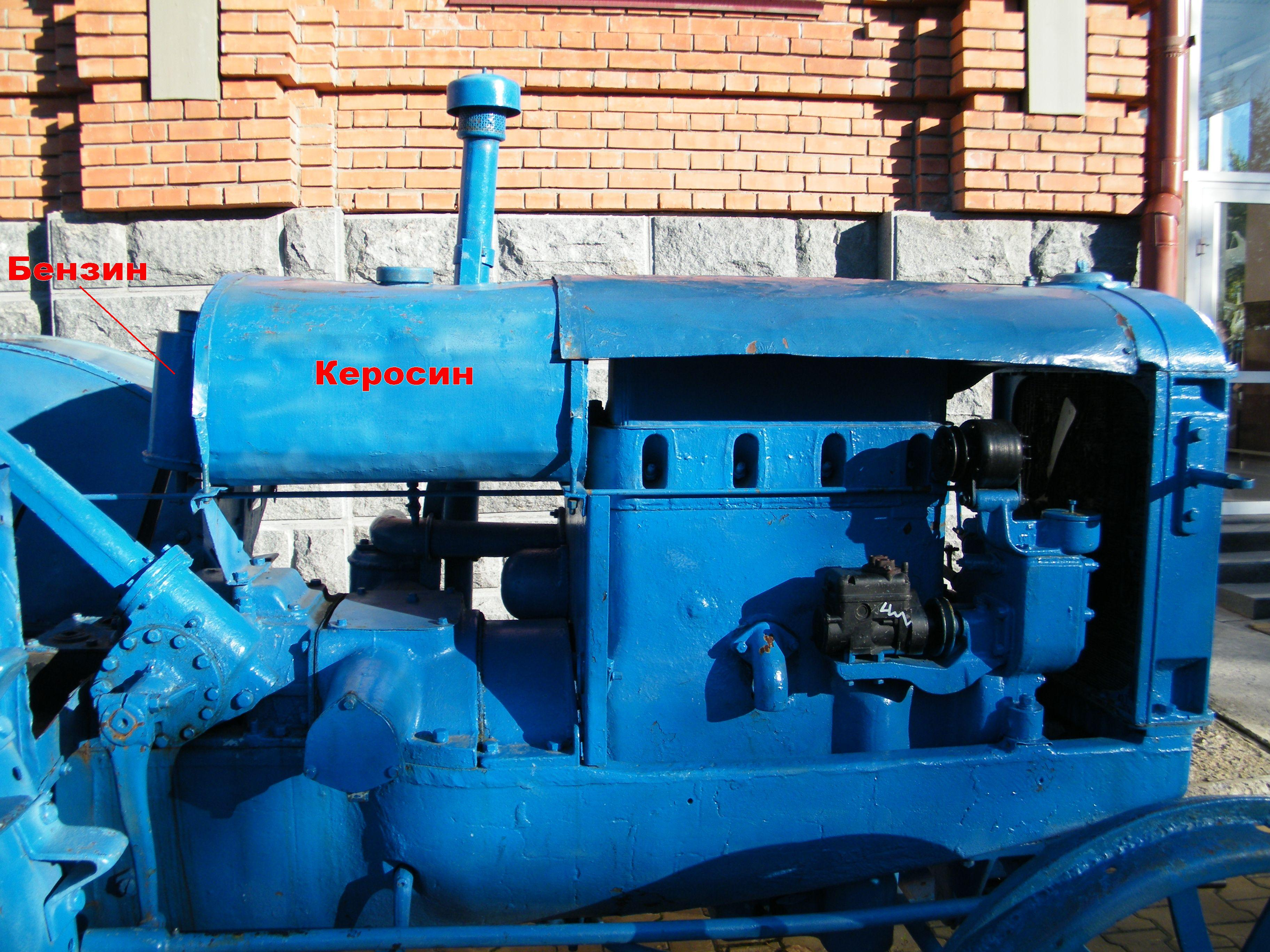 SHTZ 15/30